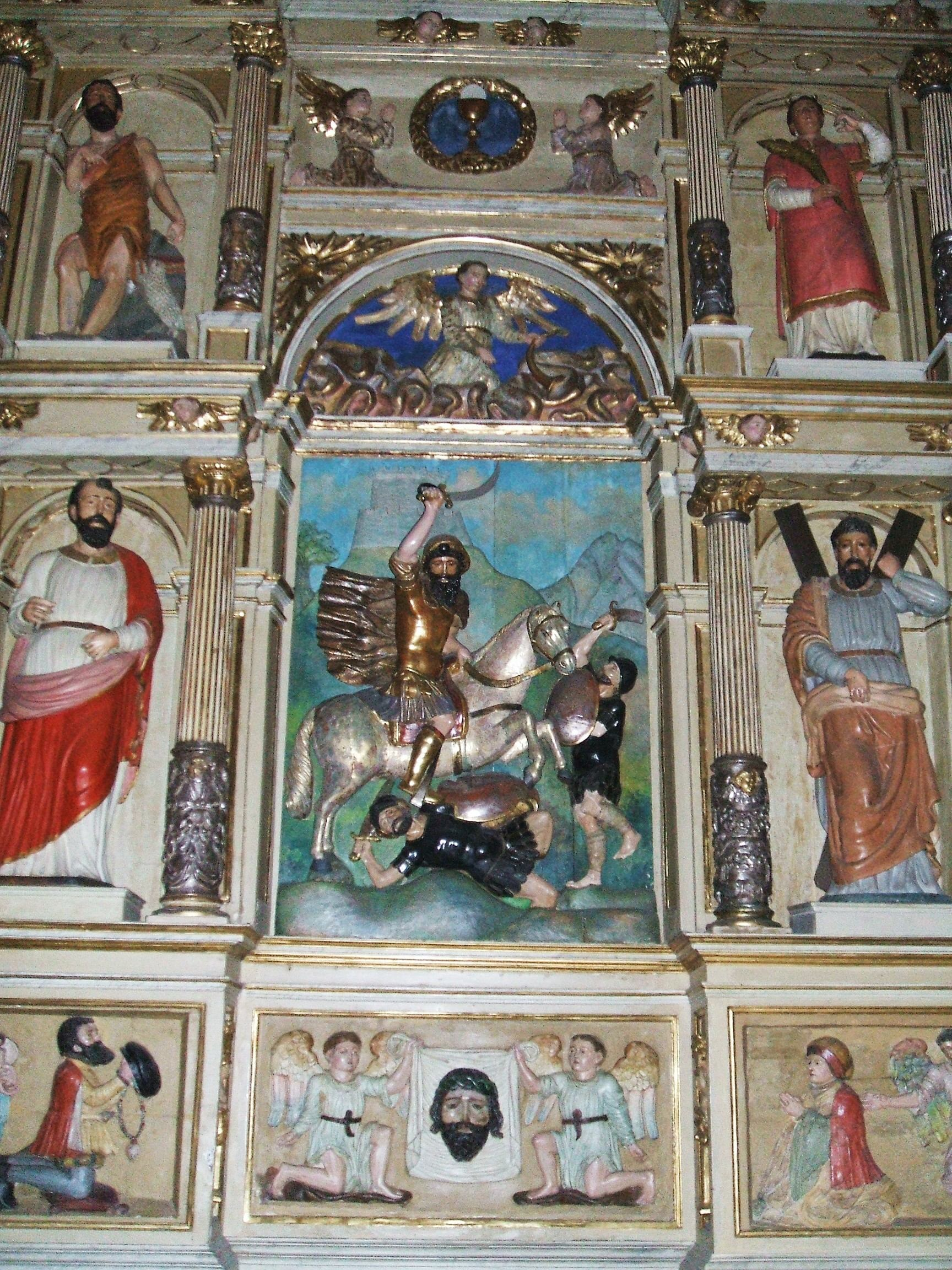 Retablo de Santiago Matamoros, en la Capilla de Santiago de la Basílica de Santa María, Portugalete, Vizcaya, País Vasco, España